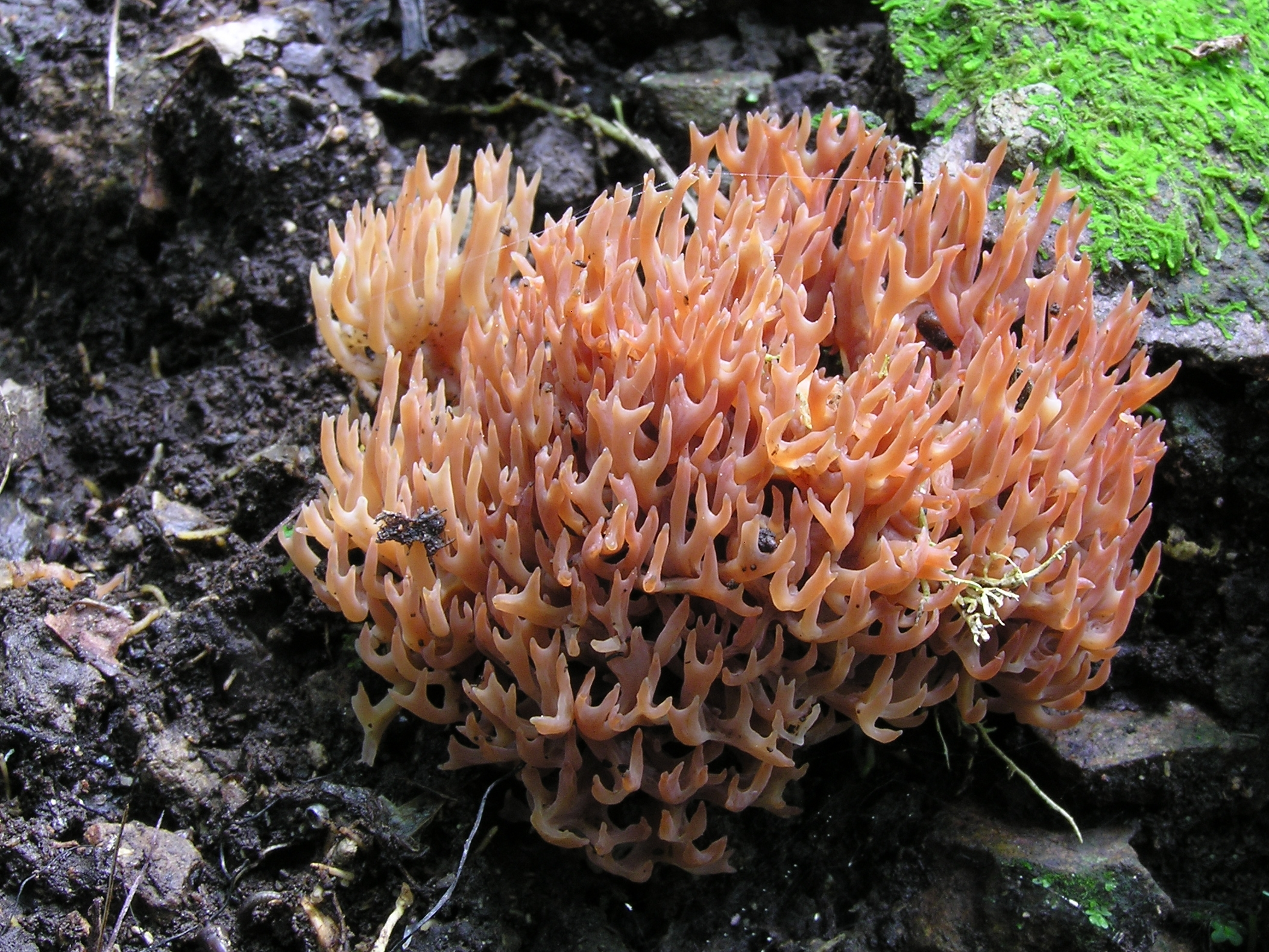 Pink coral fungus growing on forest floor under regenerating native bush (mahoe etc) in Wellington, New Zealand